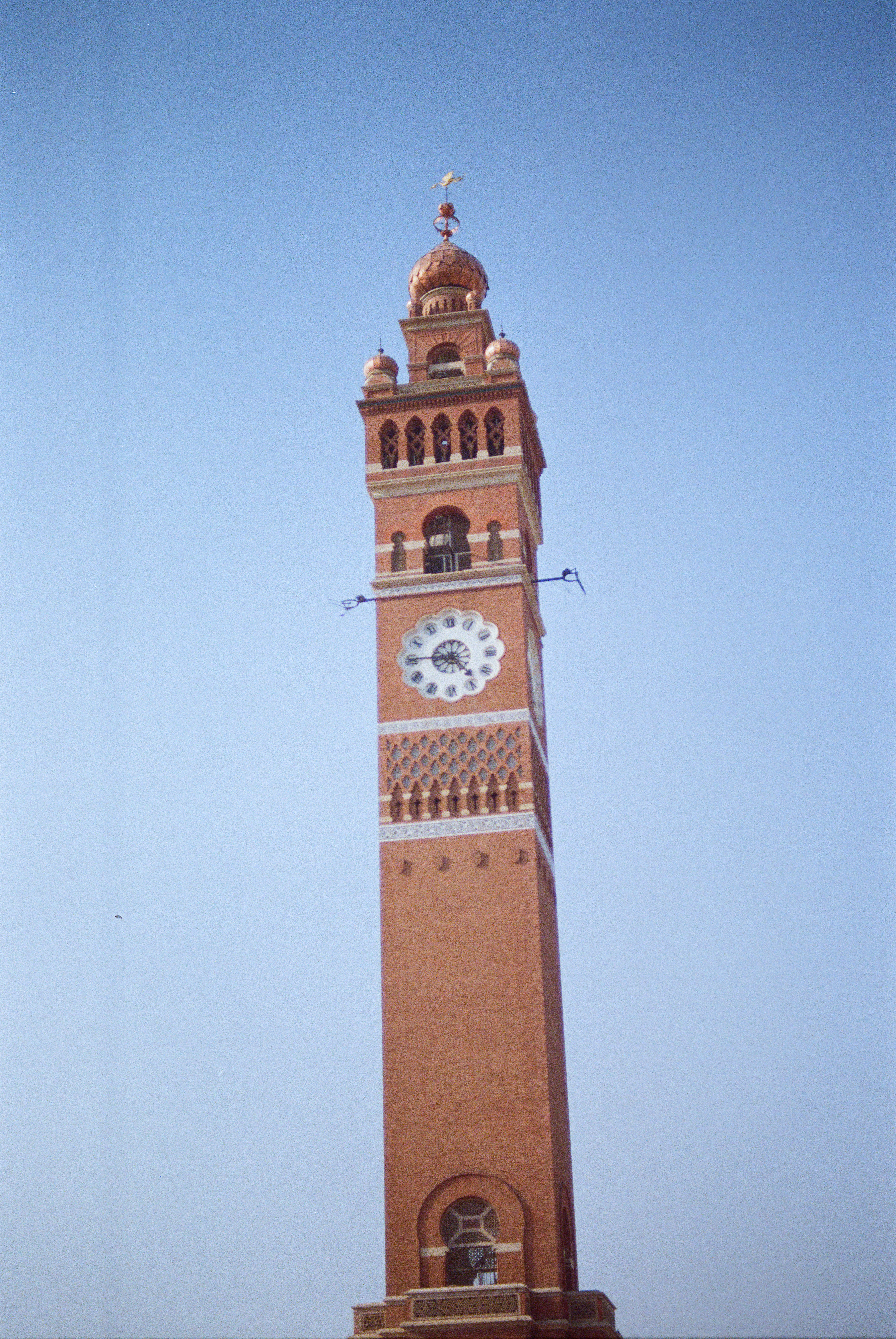 Ghanta Garh (Clock Tower), Lucknow